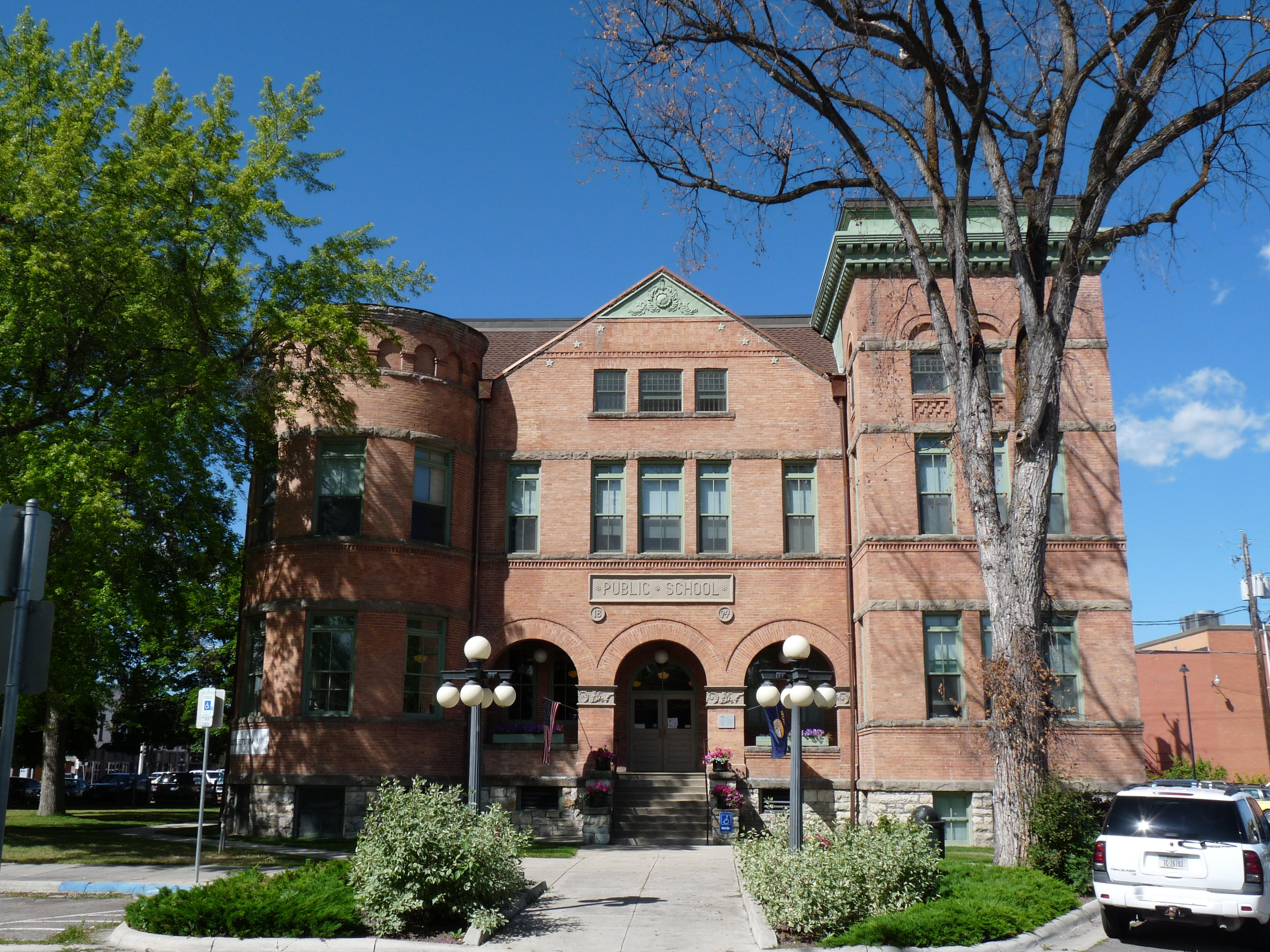 Central School was the first permanent schoolhouse in Kalispell, Montana. It was built around 1895 in the Richardsonian Romanesque style, and used by the school in various ways until 1969. Today it houses the museum of the Northwest Montana Historical Society and lies in Kalispell's East Side Historic District, on the National Register of Historic Places.